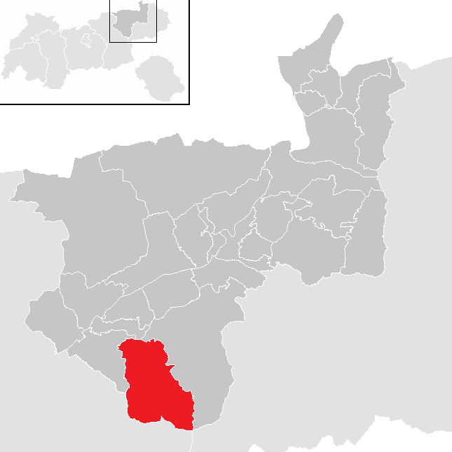 District Kufstein